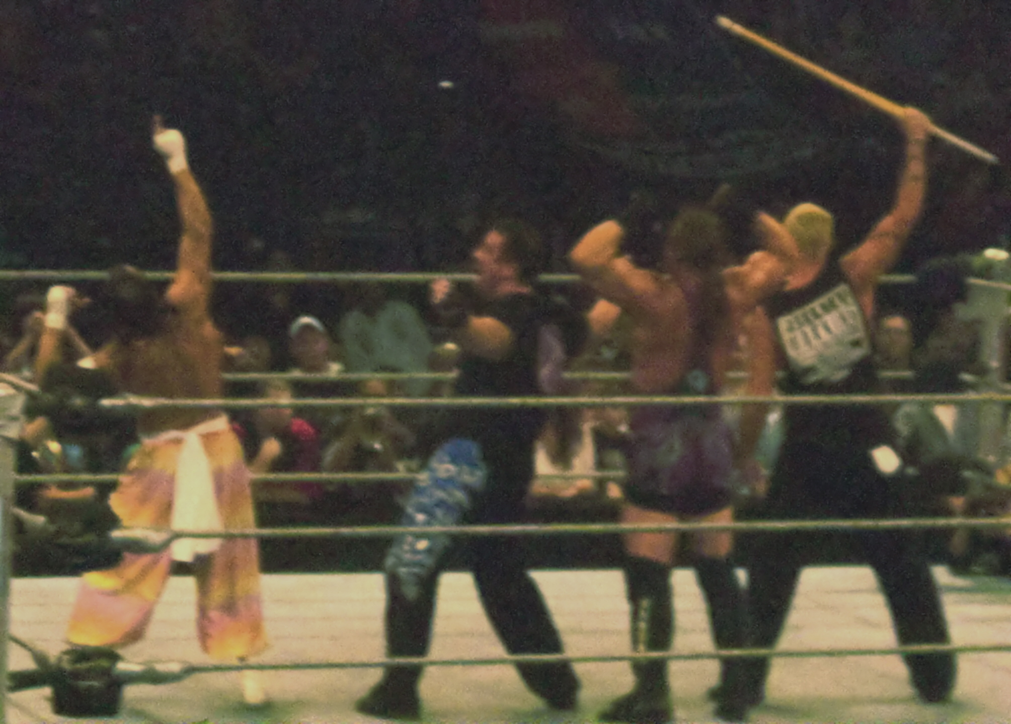 This photo was taken with my own digital camera